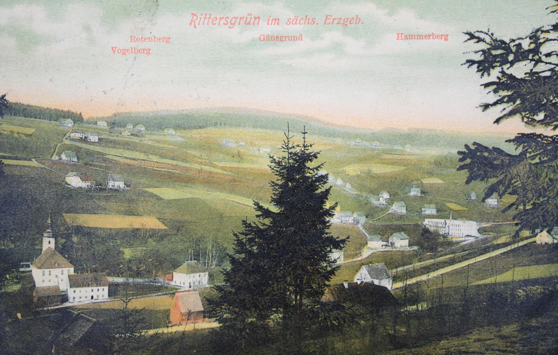 Postcard: Rittersgrün im sächs. Erzgeb.